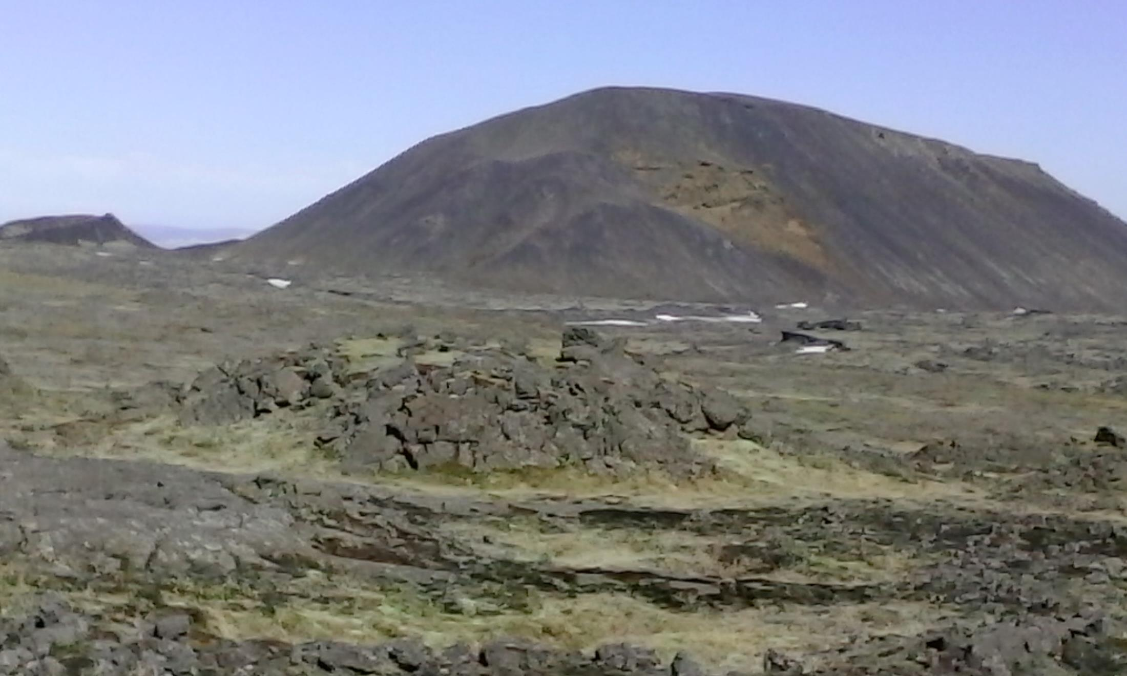 Bláfjöl, South-West Iceland